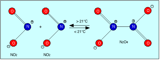 Dinitrogen Tetroxide as dimer of Nitrogen dioxide